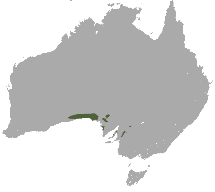 Southern Hairy-nosed Wombat (Lasiorhinus latifrons) range